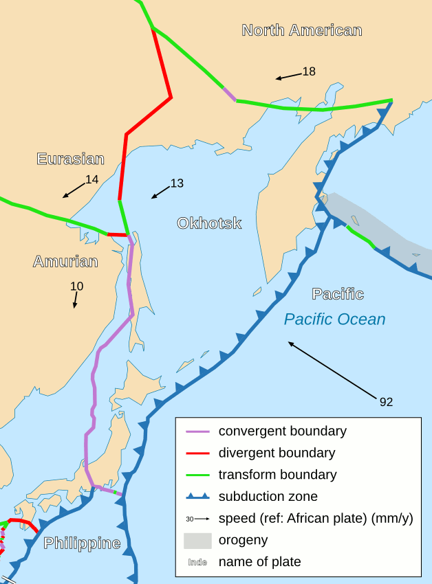 Area around Okhotsk plate.